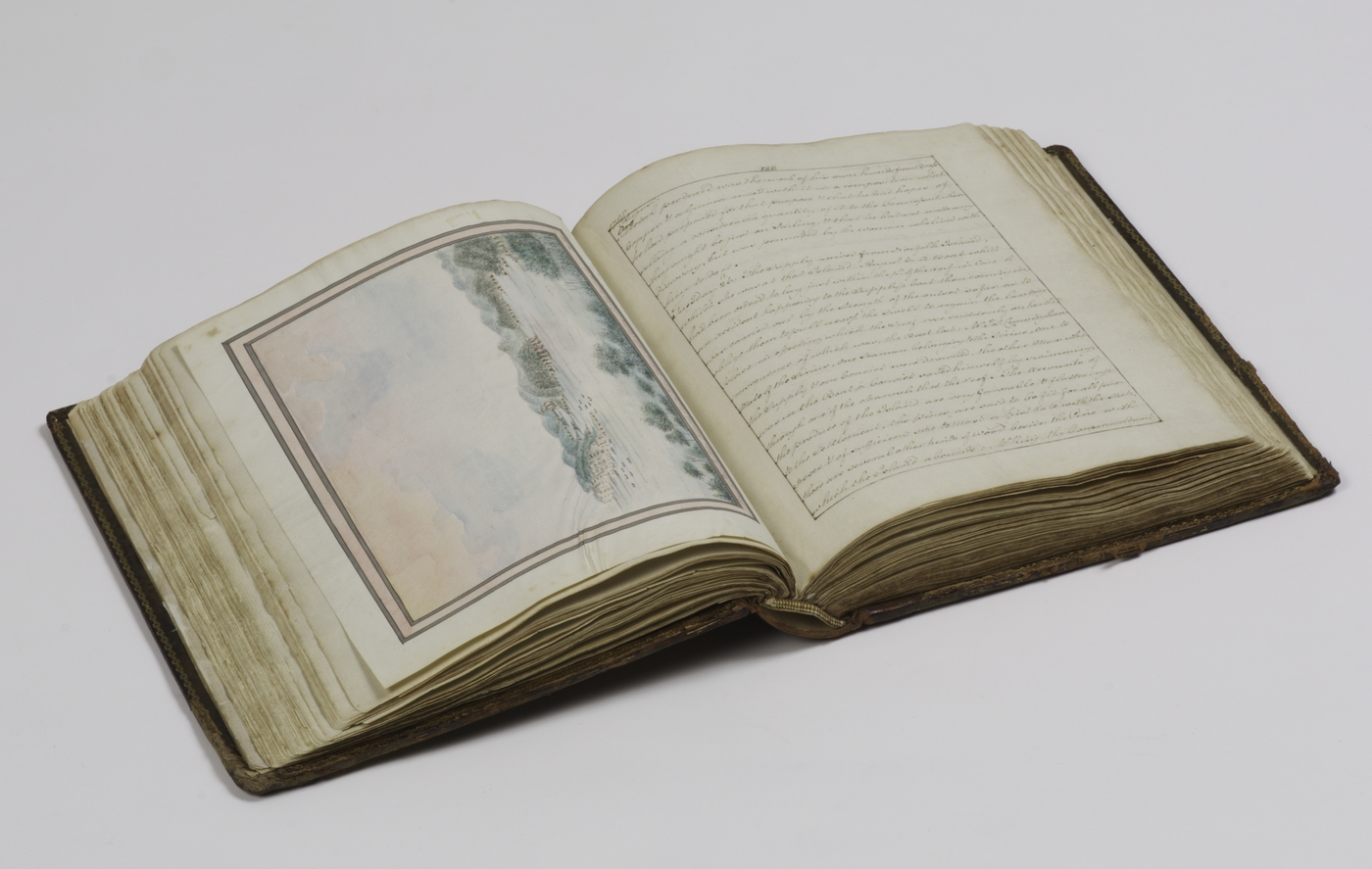 William Bradley - Journal titled 'A Voyage to New South Wales', December 1786 - May 1792; compiled 1802